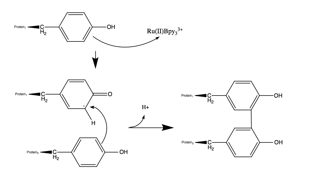 Dimers formed